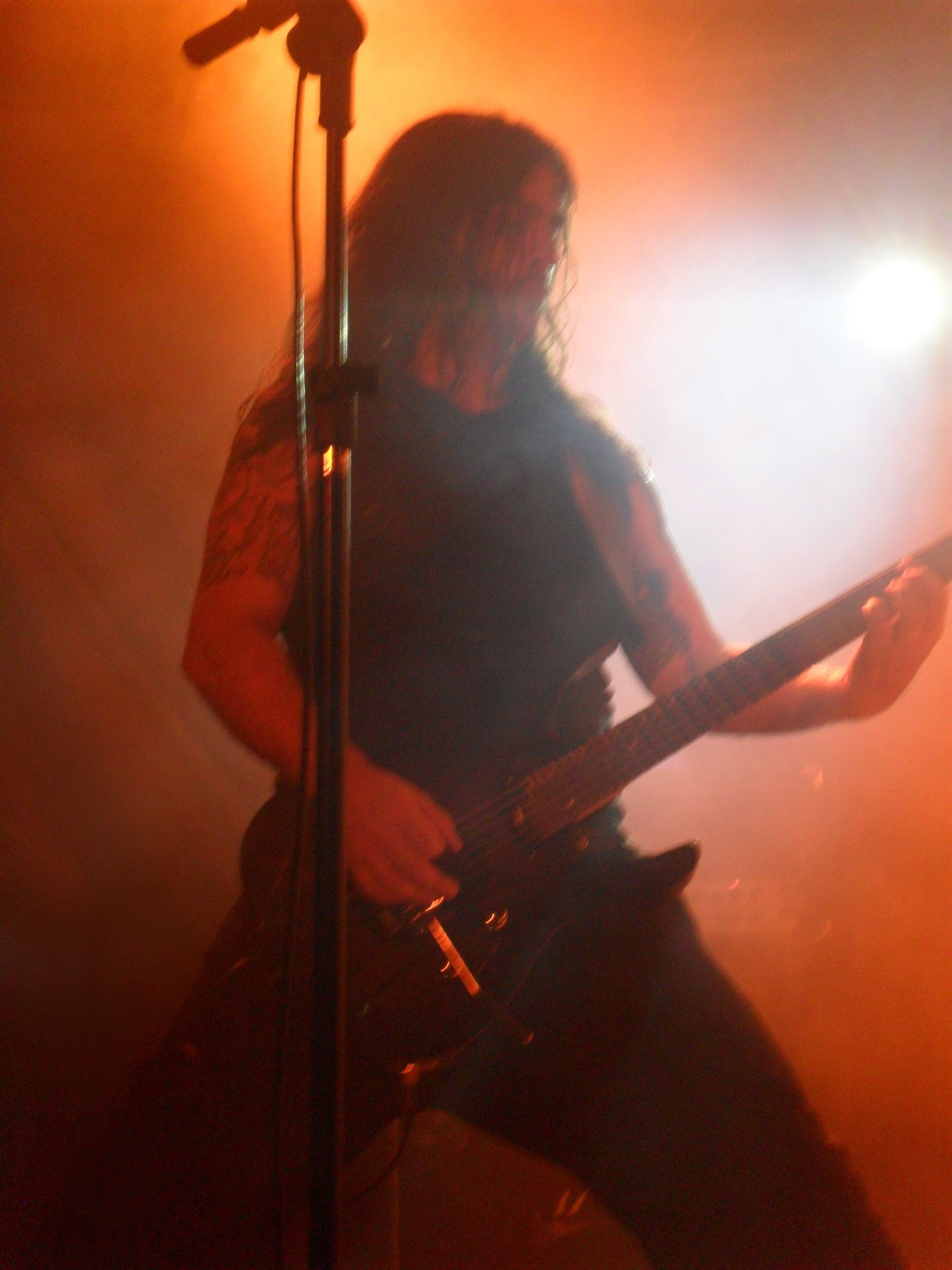 Ricardo Confessori in Guitar - Show in Fortaleza (21/11/2010)